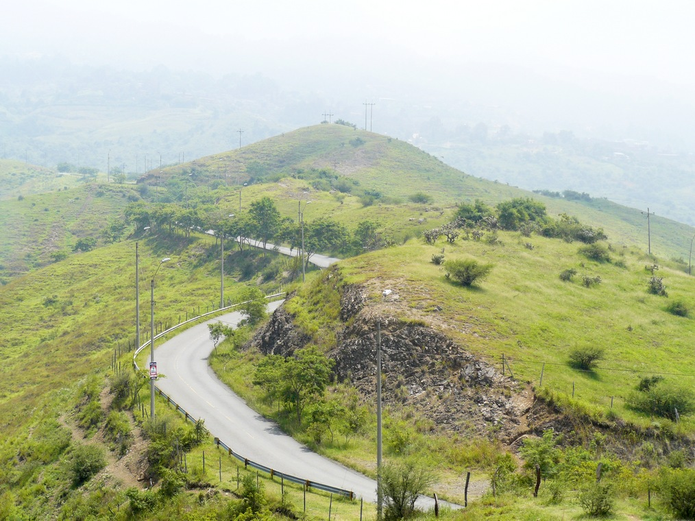 The road leading up to Dapa from Arroyohondo.